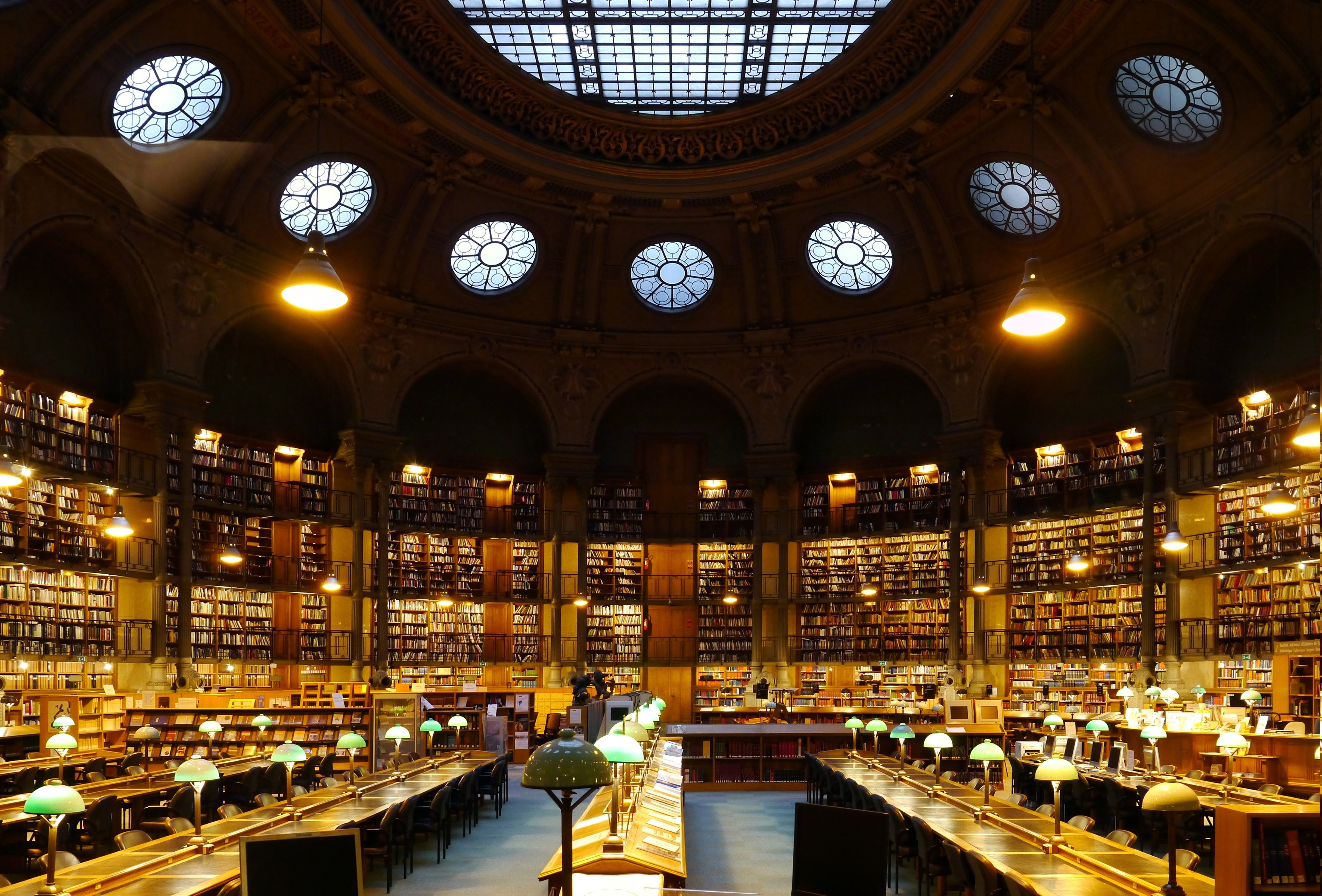 Salle ovale (oval room) of the National French library, Richelieu building.